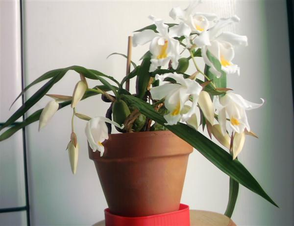 A work released per the GNU Free Documentation License by : ANUCA Santander, España.